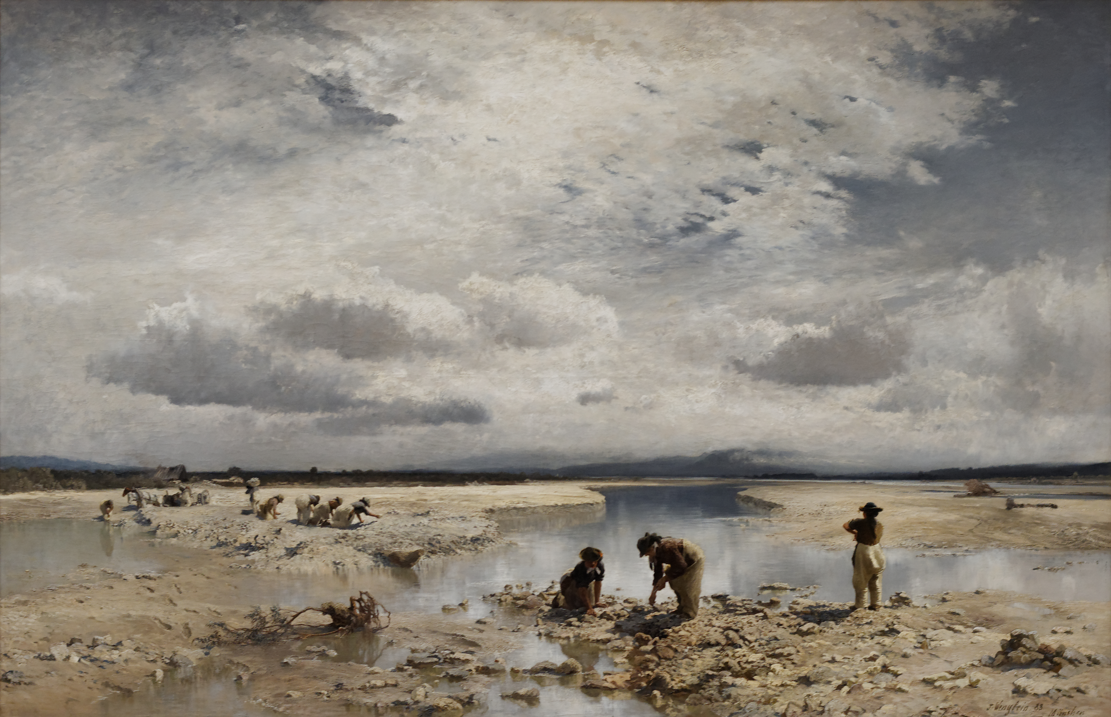 Women Collecting Limestone from the Bed of the Isar near Tölz